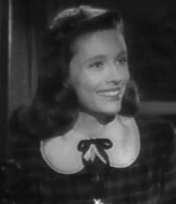 Cathy O'Donnell